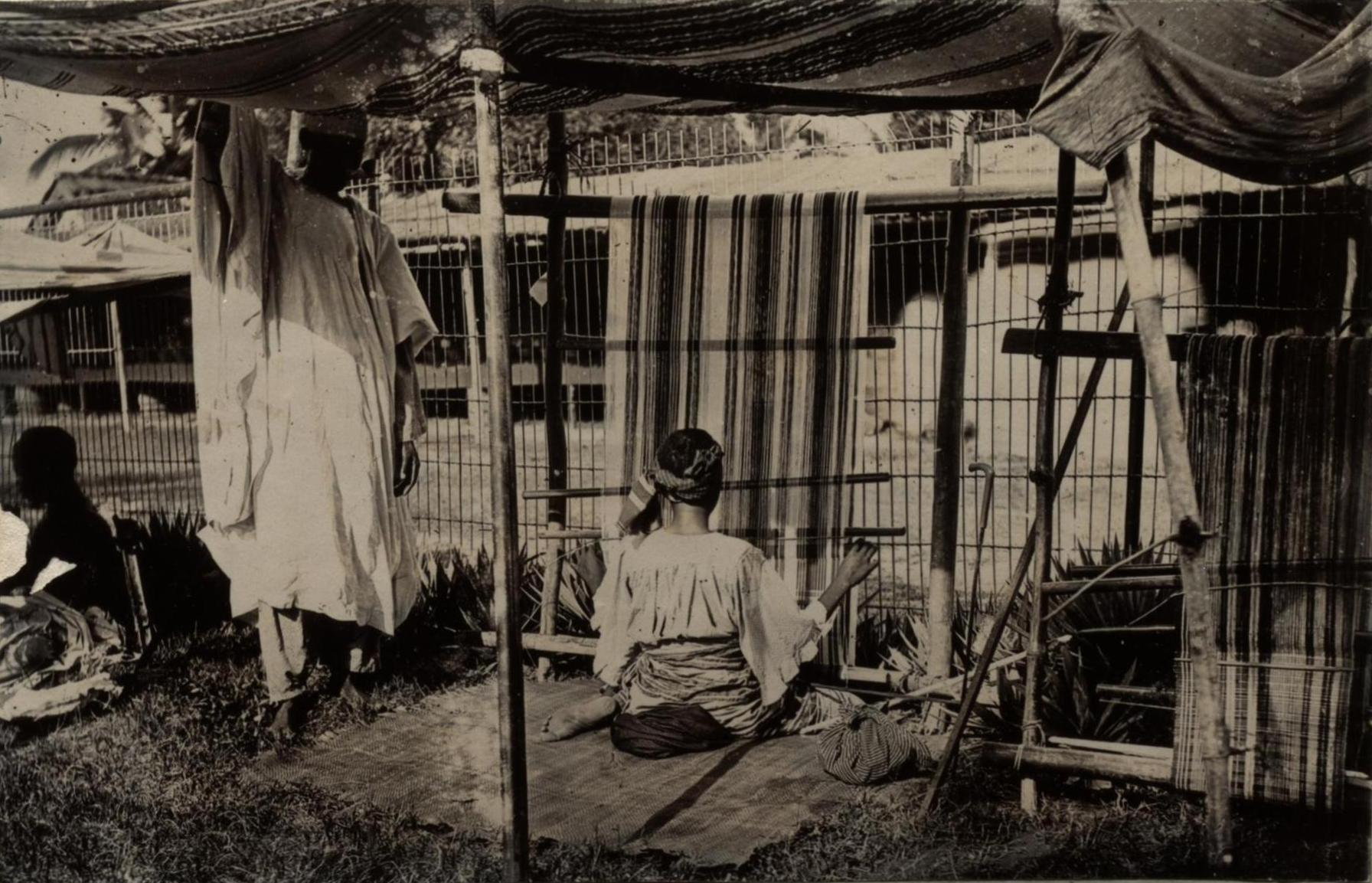 Creator: H. Hunting Title: West African Cloth Making Lagos Date: [between 1910 and 1913] Extent: 1 photograph: black and white (10 x 15cm) Notes: Title transcribed from caption Picture shows someone weaving cloth in Lagos, west Africa. From a two volume set of photographic albums containing 130 photographs. Photographs depict representatives of the Paterson Zochonis trading company and the various tribes they encountered in the course of trading in West Africa. Subjects: Photograph albums Nigeria, Photograph Albums Sierra Leone, Commerce--Nigeria--1910-1920 Format: Photograph Rights Info: No known restrictions on access Repository: Thomas Fisher Rare Book Library, University of Toronto, Toronto, Ontario Canada, M5S 1A5